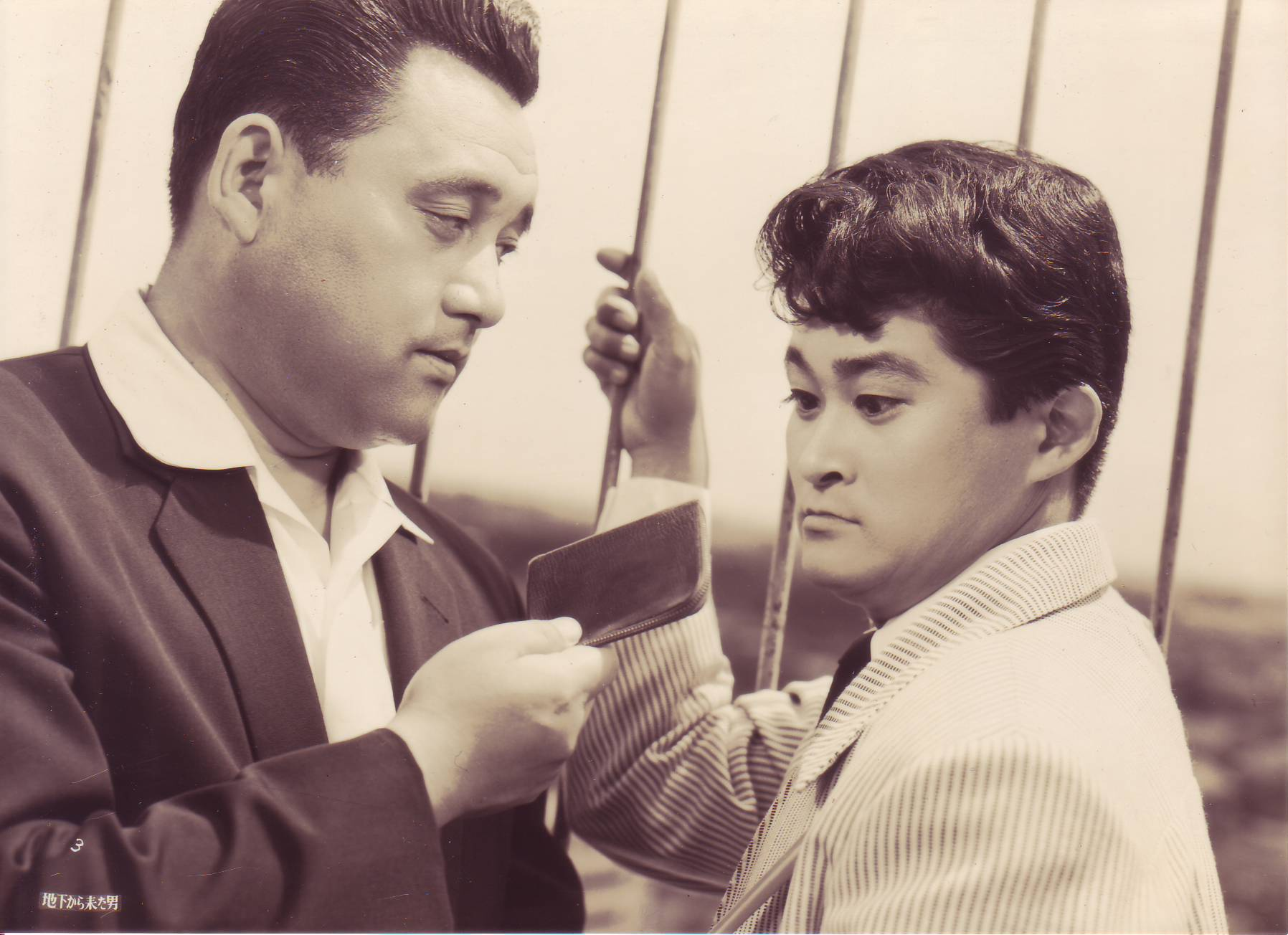 Frankie Sakai (right) and Toshiyuki Ichimura. Studio Still of the 1956 Japanese film "Chika kara kita otoko (Man from underground)" (Nikkatsu).